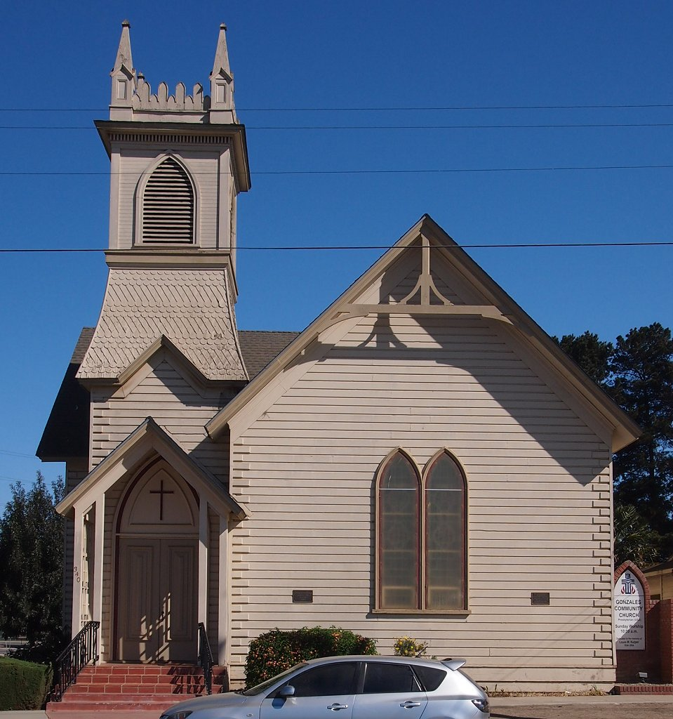 Community Church of Gonzales, 340 4th St., Gonzales, California, USA. Viewed from the southwest.